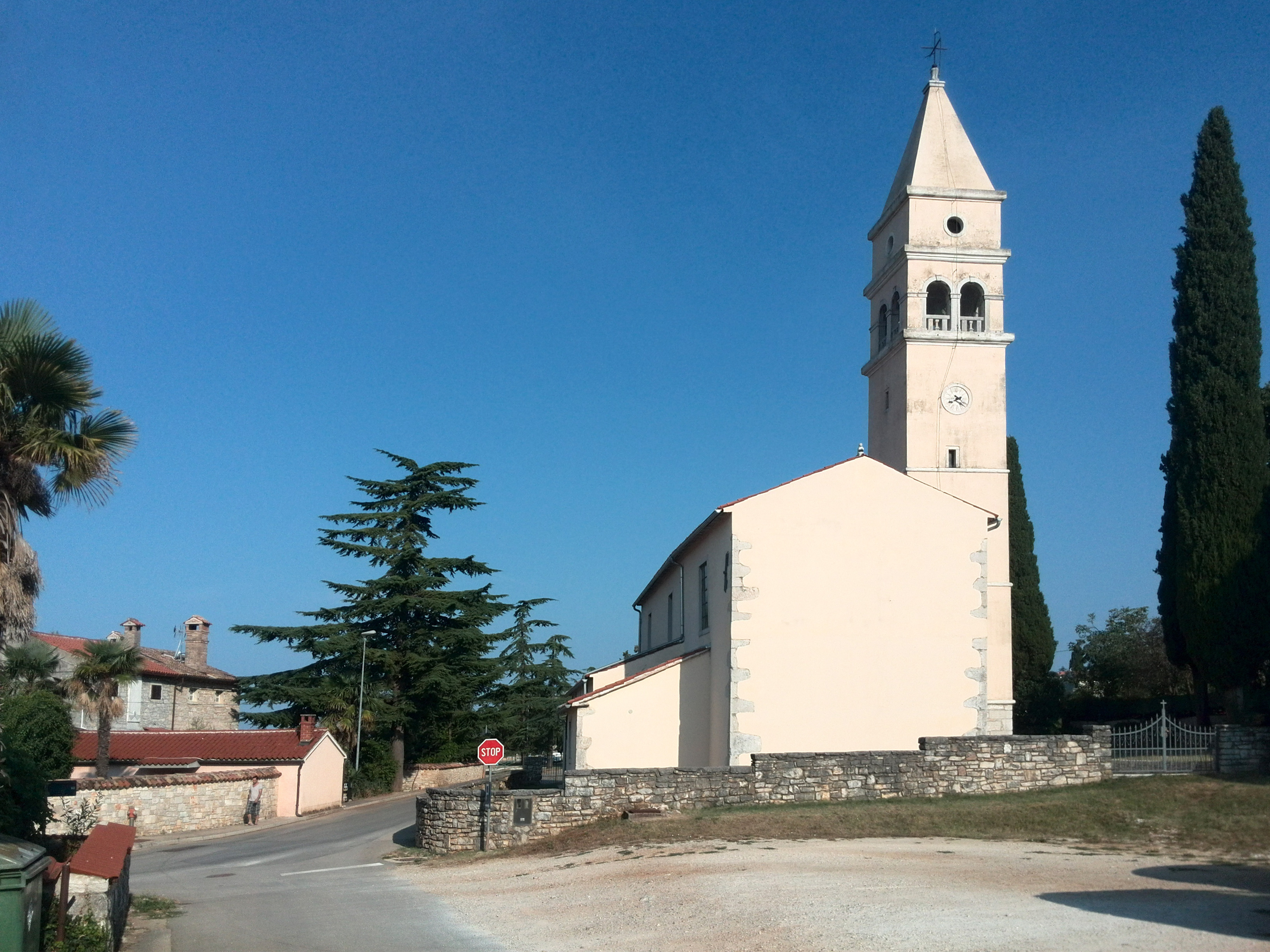 Labinci (Kaštelir-Labinci), Istra